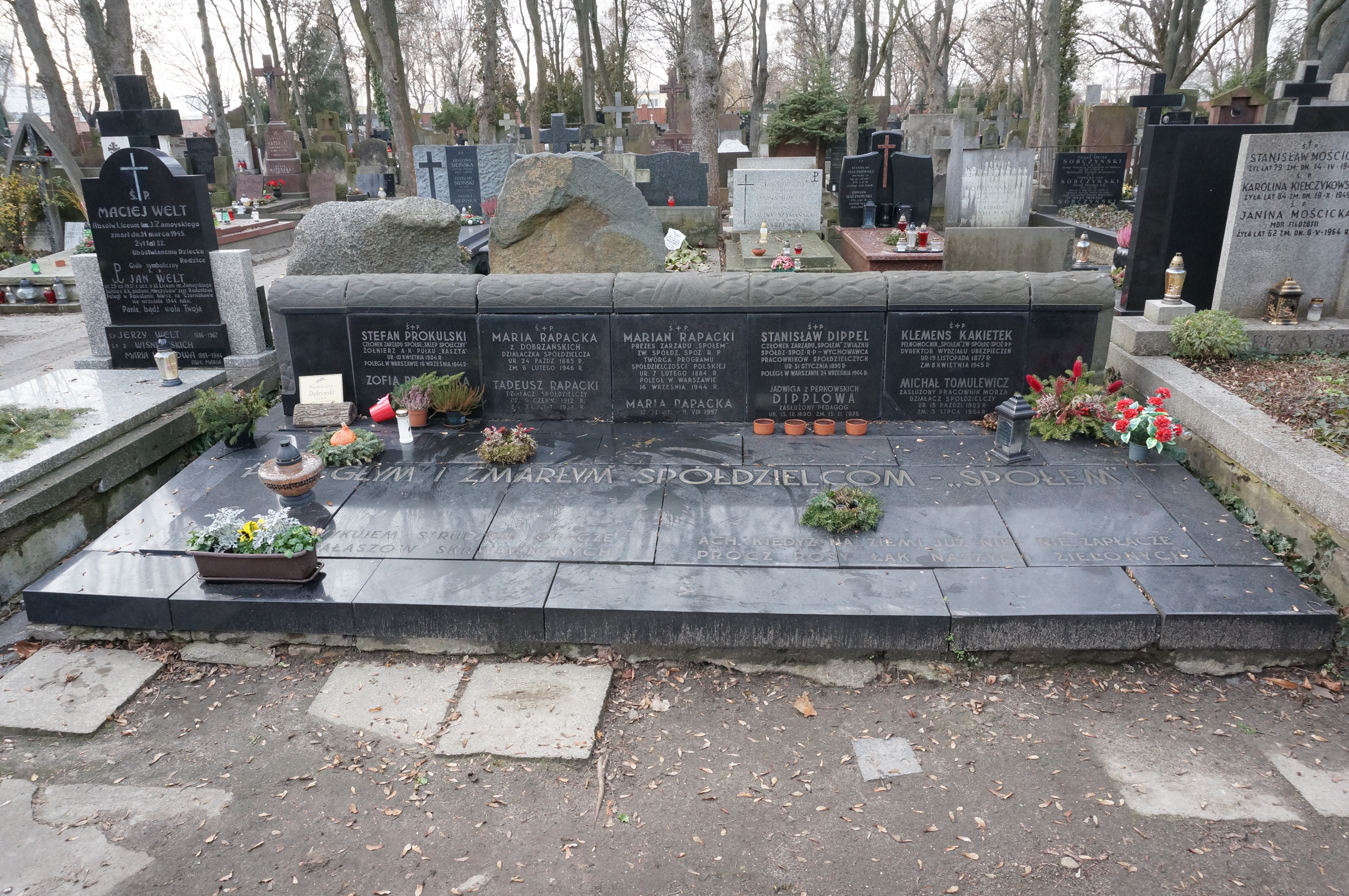 The grave of Marian Rapacki at the Powązki Cemetery (section 150, row 3, grave 28, 29, 30)